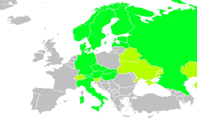 European members of International Table Hockey Federation at 2019.VII . In green - members since 2005. (non-visible - Canada, USA), in yellowish green - added members at 2005.-2019.